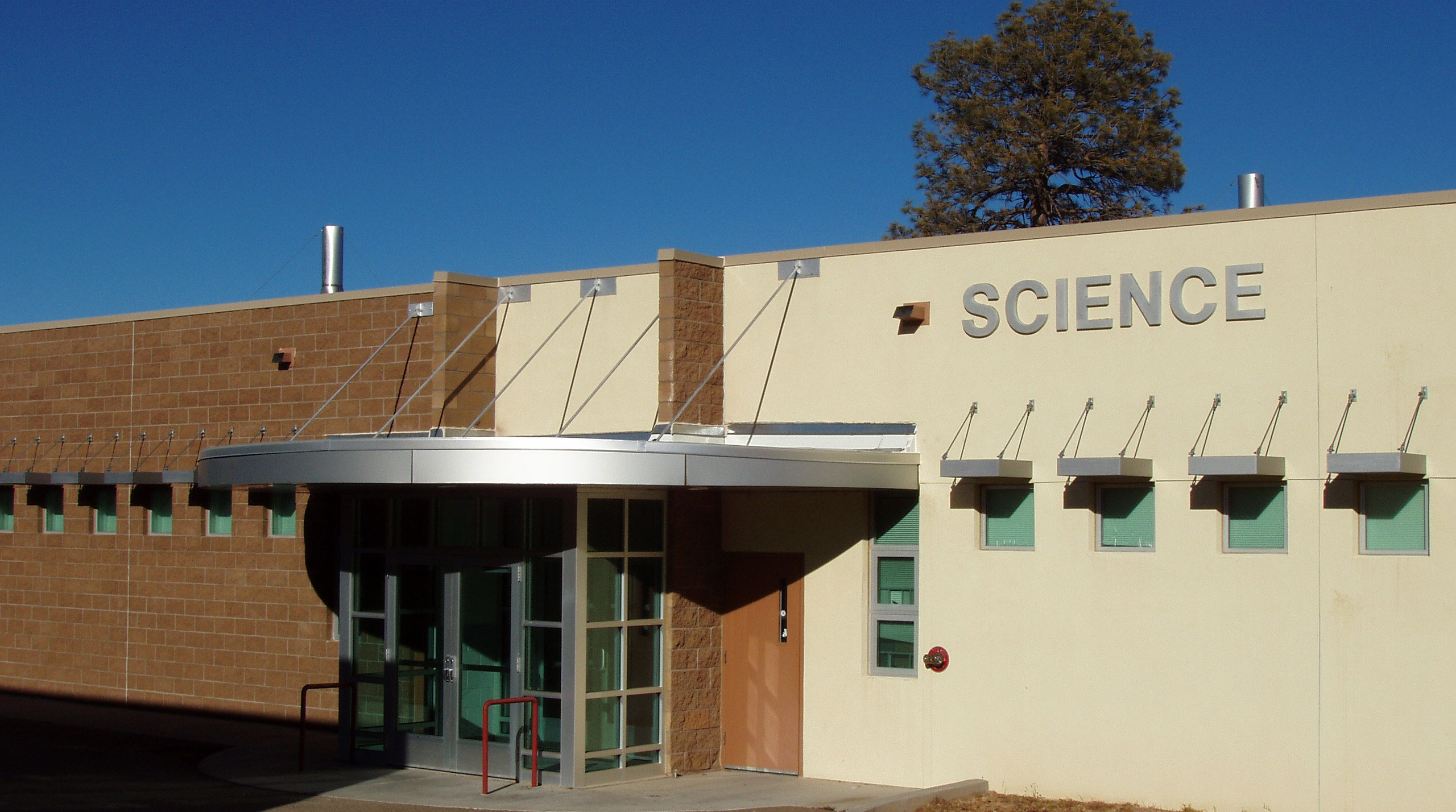 The new Science Wing of Los Alamos High School